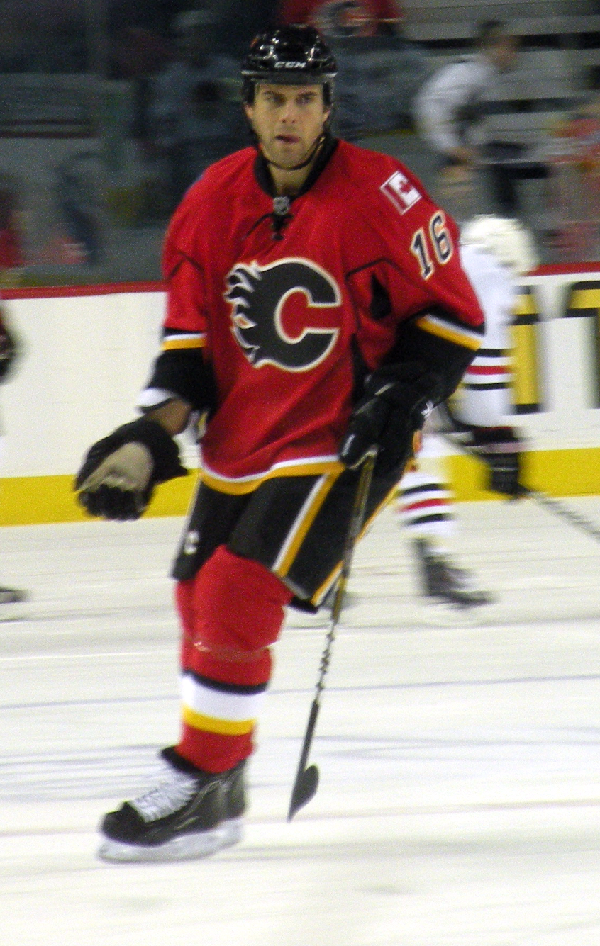 Calgary Flames forward Tom Kostopoulos prior to a National Hockey League game against the Chicago Blackhawks.